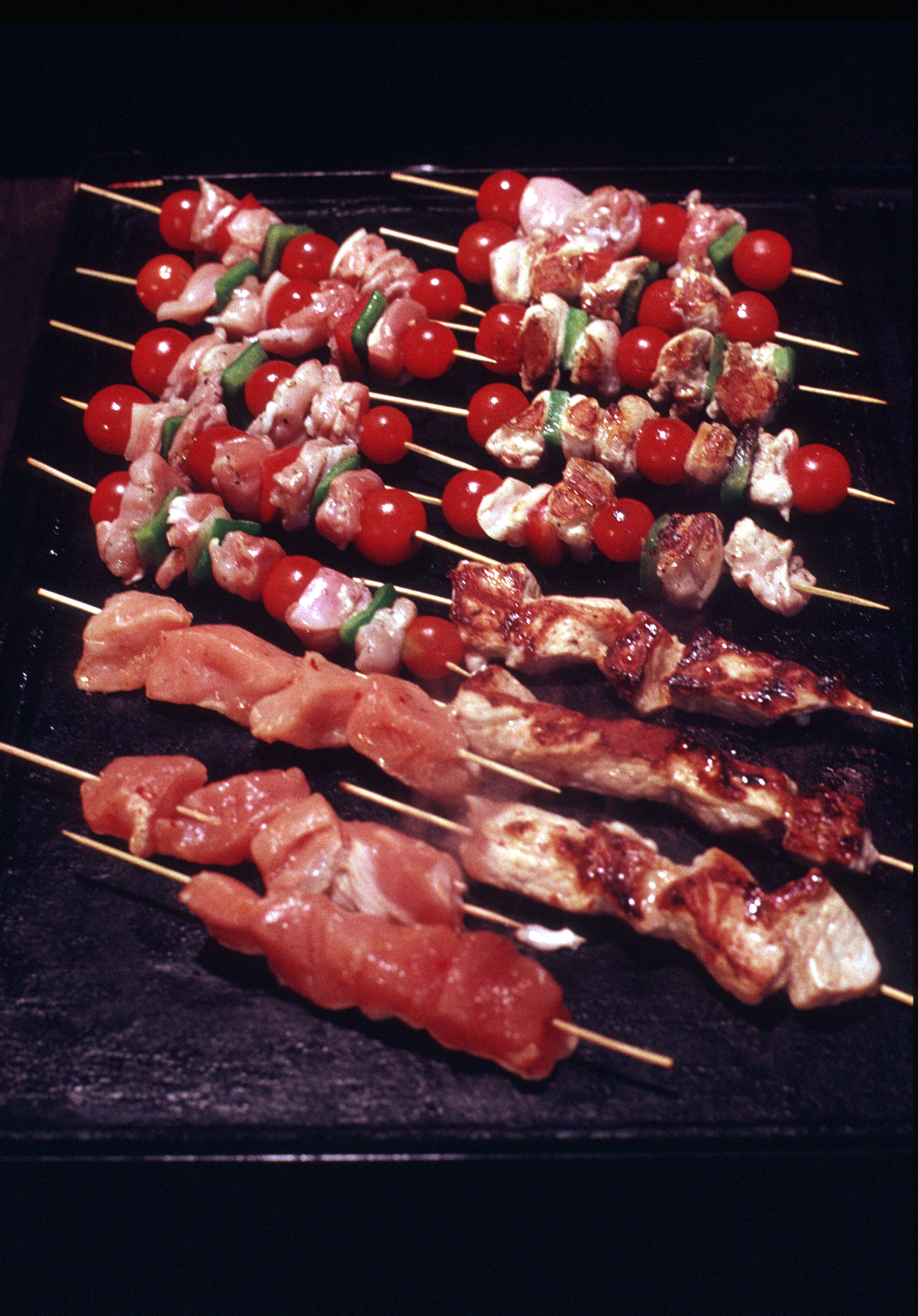 Chicken kebabs on the BBQ.